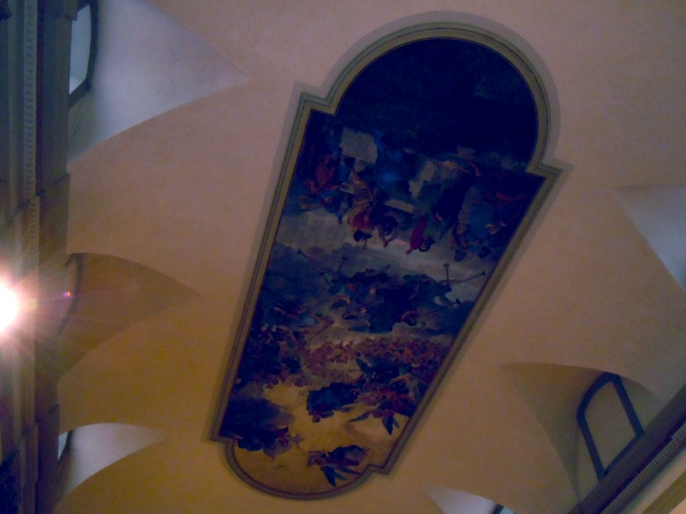 Cordignano: chiesa